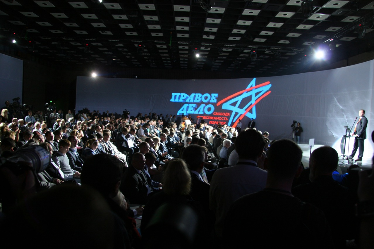 An extraordinary Congress of the Russian party of the "Right Cause" and the election on it Chairman Mikhail Prokhorov. 25 June 2011